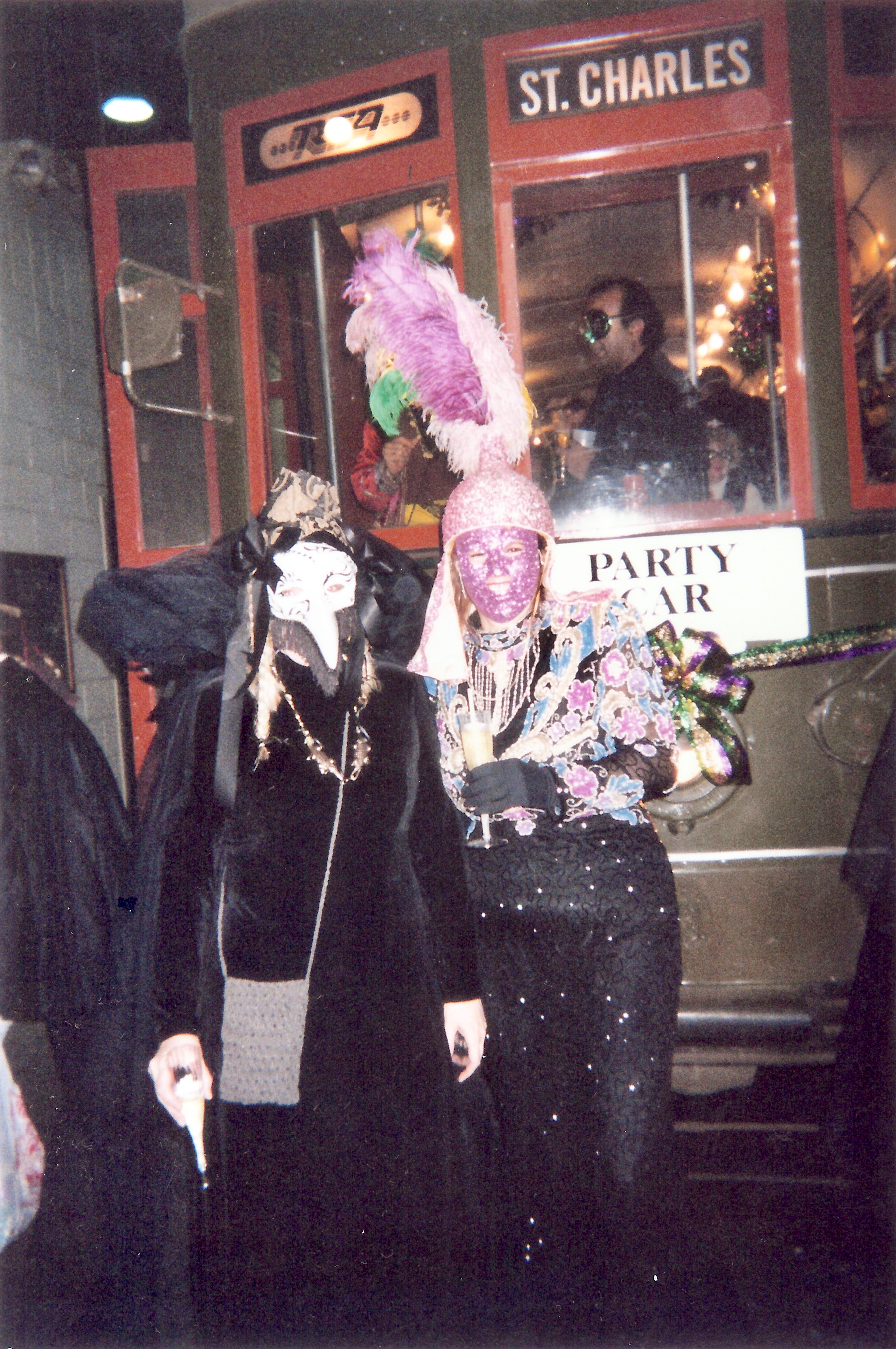 Maskers with the Phunny Phorty Phellows Carnival organization, New Orleans, Twelfth Night, in front of streetcar. Photo by Infrogmation.